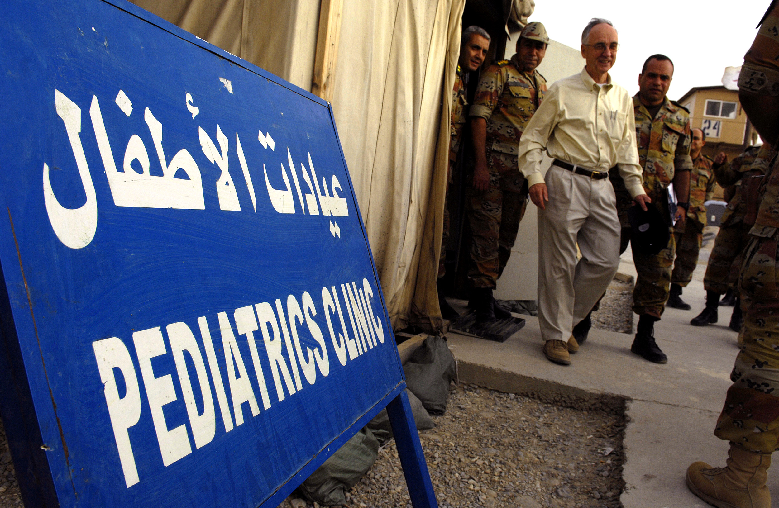 Deputy Secretary of Defense Gordon R. England receives a tour of the Egyptian field hospital in Bagram, Afghanistan, July 20, 2007. The field hospital, which has been operating for four years, has seen 300,000 patients and has the capability of conducting major surgery in theater.